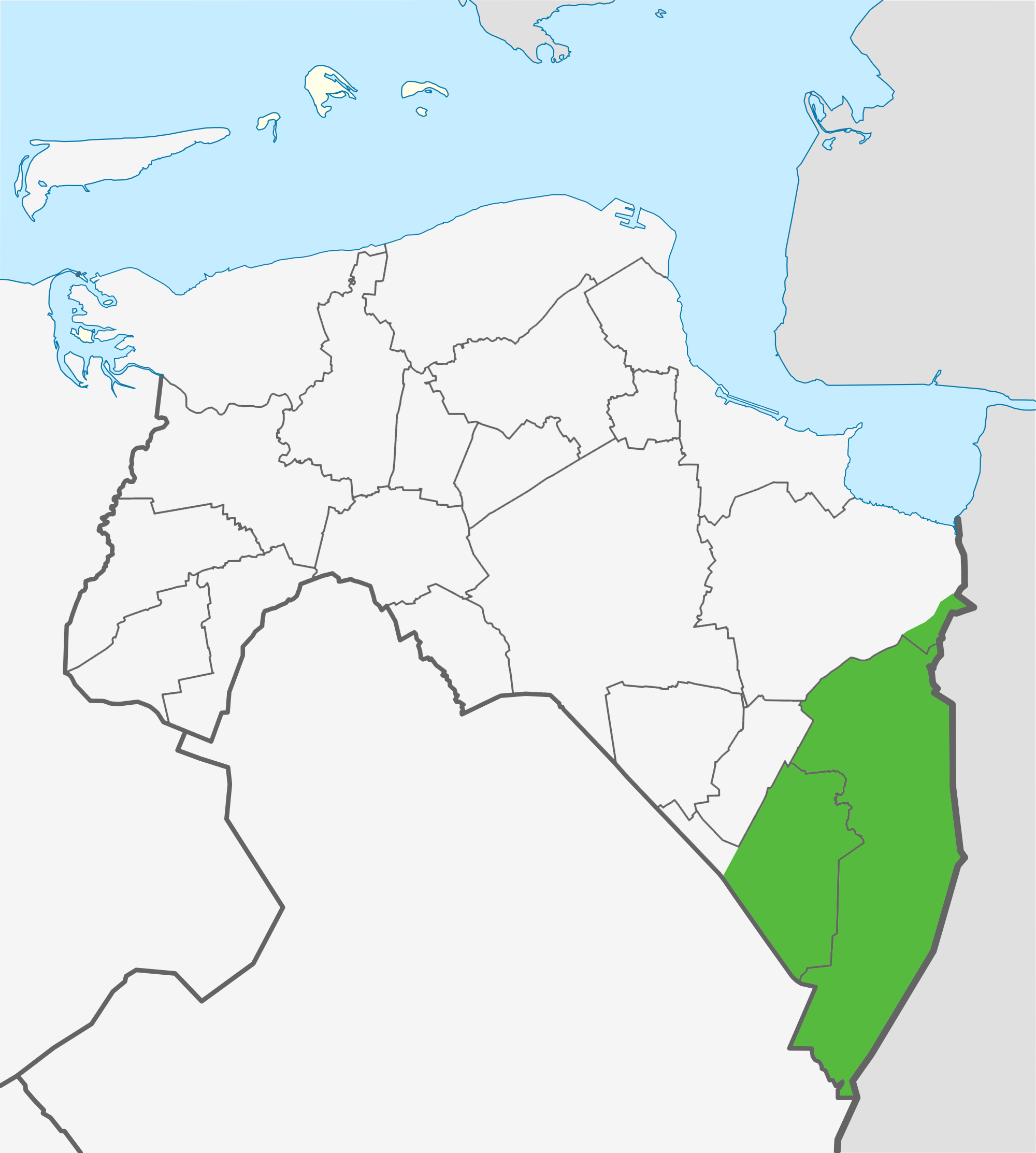 Location of Westerwolde in the province of Groningen Based on File:Netherlands Groningen location map.svg